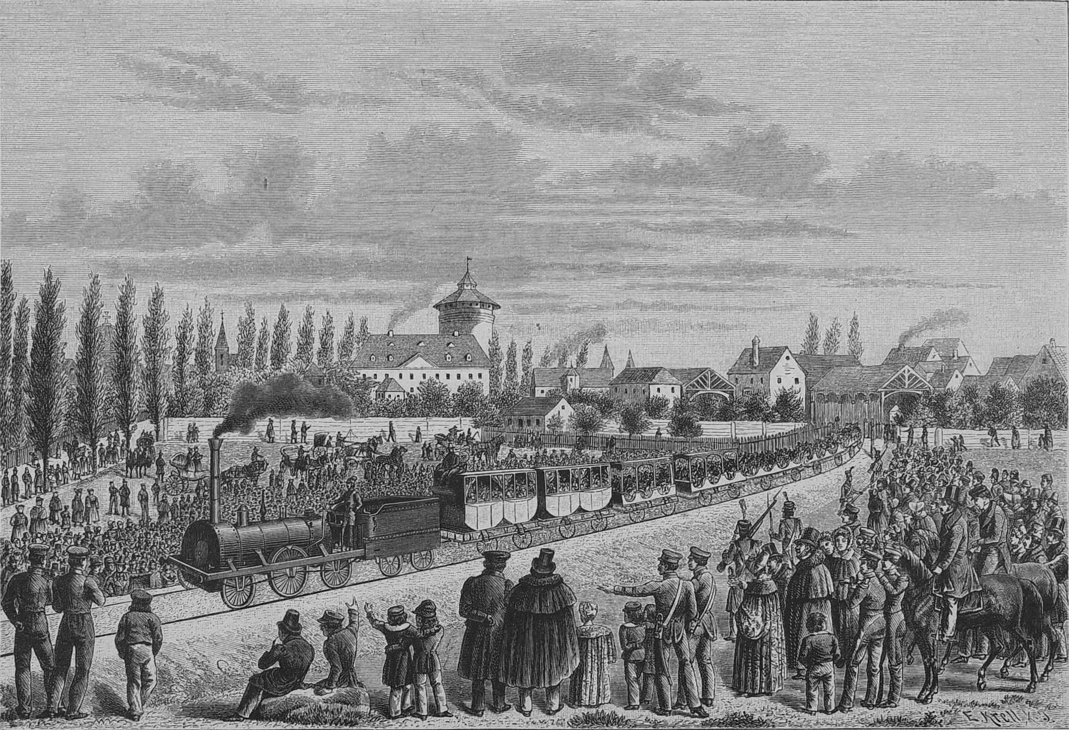 caption: "Die feierliche Eröffnung der Ludwigs-Eisenbahn zwischen Nürnberg und Fürth am 7. December 1835. Nach einem gleichnamigen Stiche von Wießner."